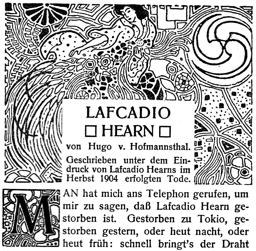 L.Hearn "Kokoro" Beginning of German edition